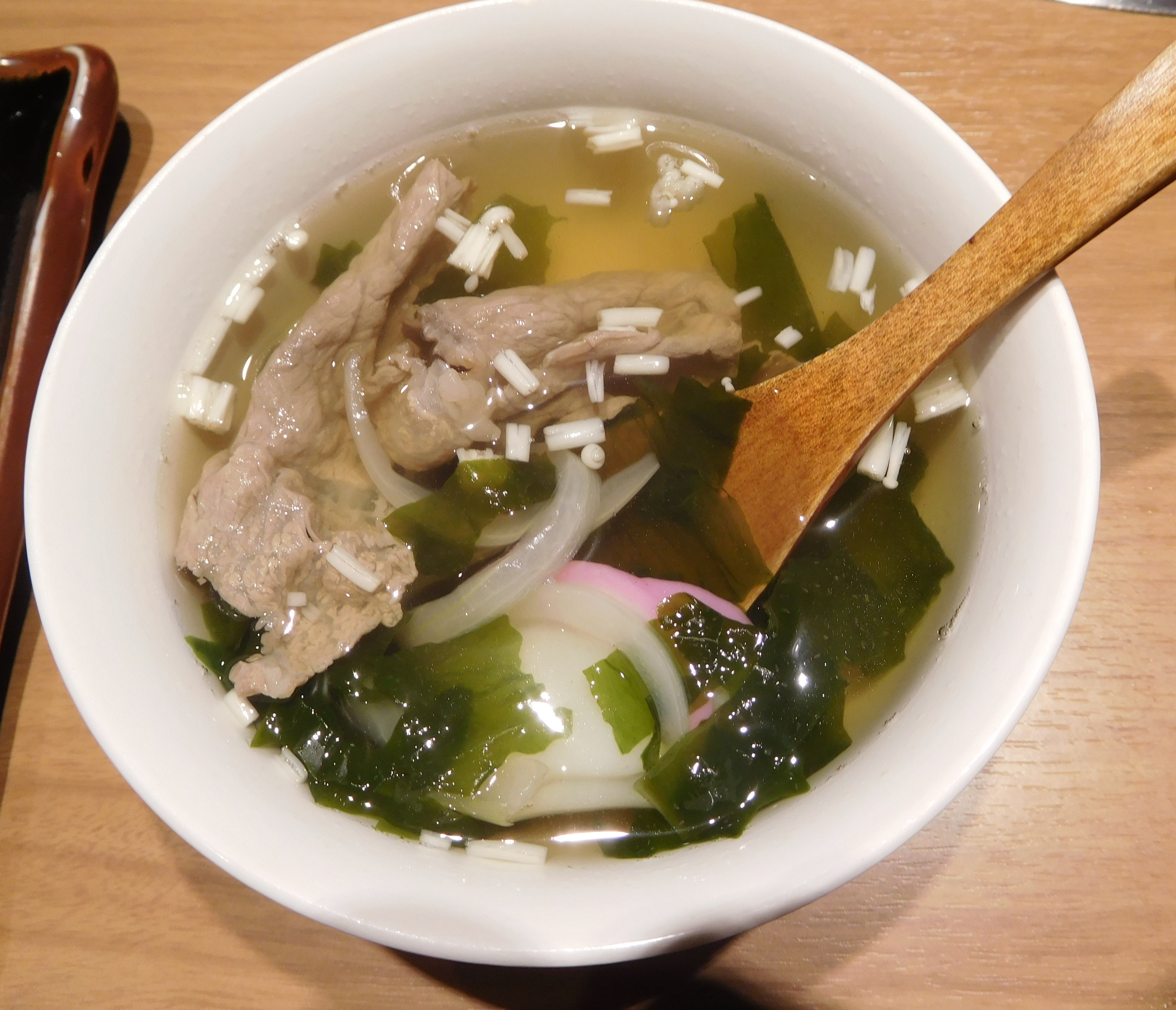 This is a local food called "Nabari Gyujiru", beef soup in Nabari city, Mie prefecture, Japan. This soup was cooked by Yakiniku Restaurant Okuda in Nabari, Mie, Japan.